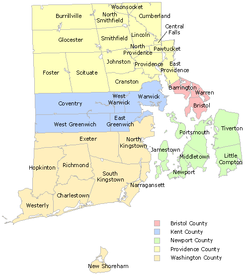 List of municipalities in Rhode Island